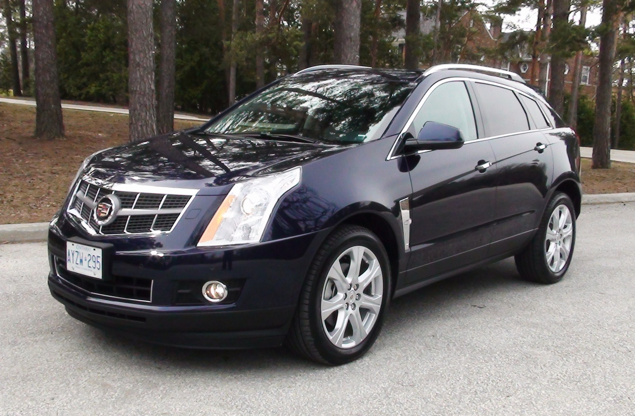 2010 Cadillac SRX - Great Style Review and Photo Gallery 2010 Cadillac SRX - Le Grand Style Essai Routier et Photos